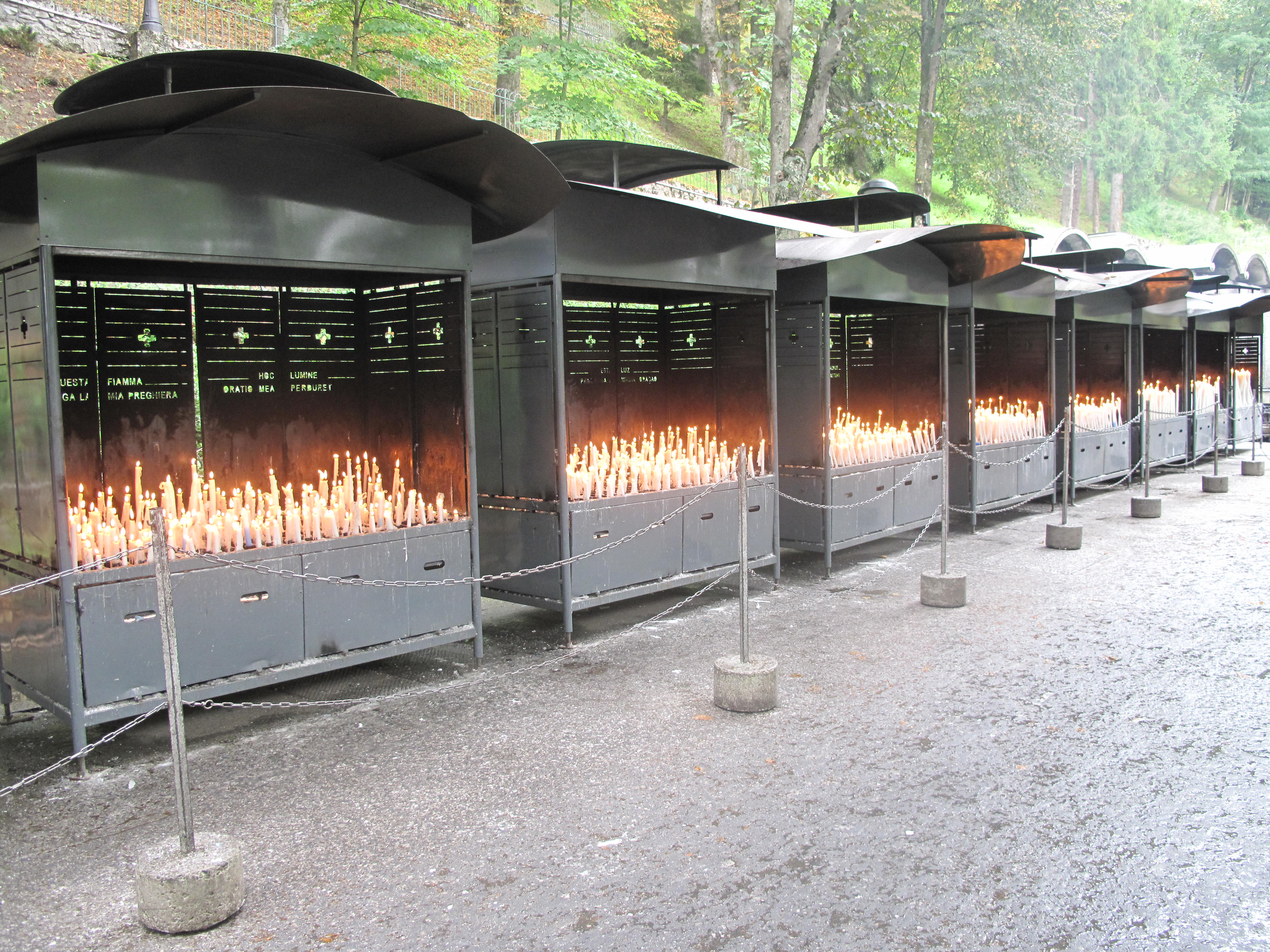 Boxes near the grotto to let burn the candles of the visitors of Lourdes, France